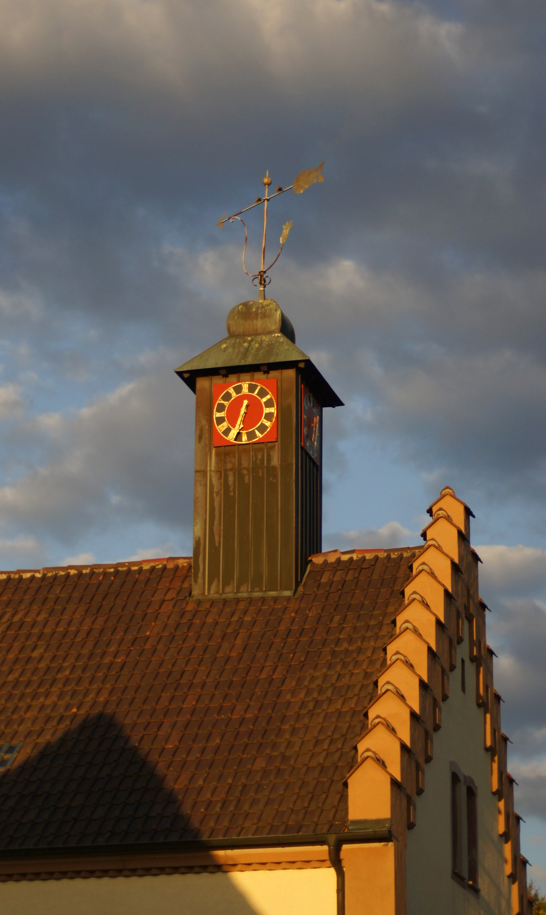 Old clock tower on the town hall in Hördt